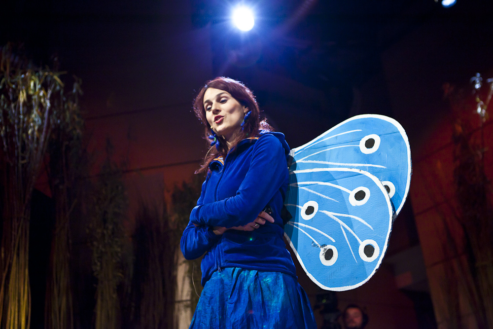 Cecylia Malik speaking at TEDx Kraków 2011.